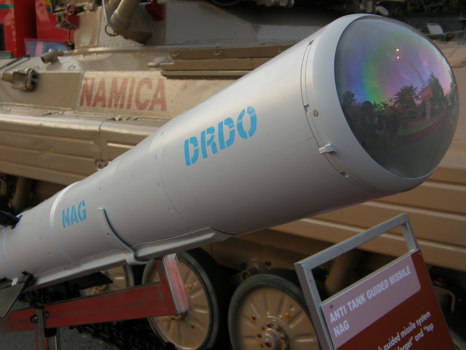 An closeup image of the Nag missile seeker head, taken during DEFEXPO-2008, in Pragati Maidan, New Delhi, on 15th February 2008. The Nag is a third generation Anti-tank Guided missile developed by DRDO.